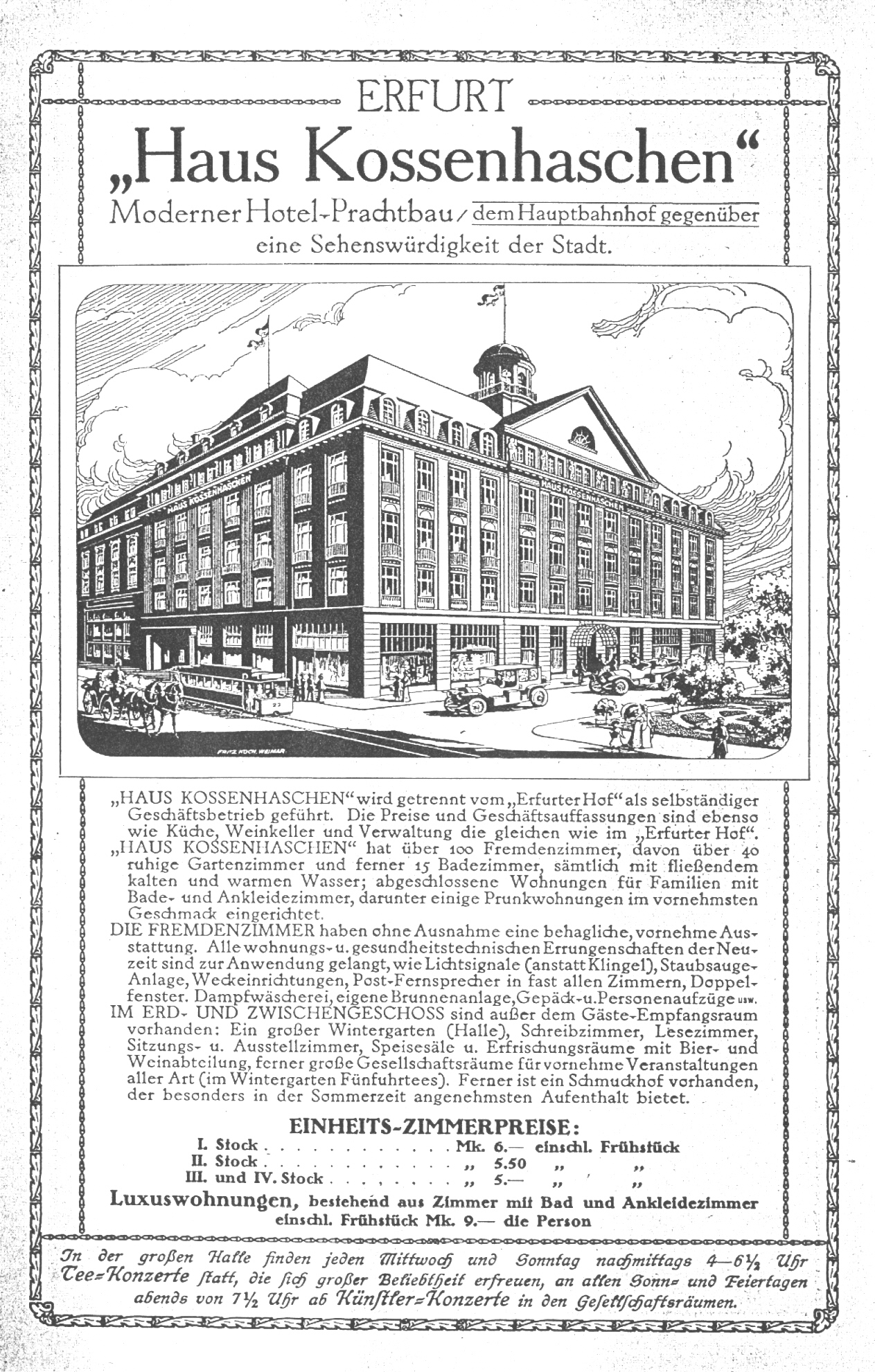 The hotel Haus Kossenhaschen in Erfurt.